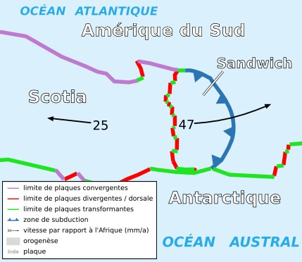 Map of the Sandwich Plate